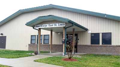 This is an image of Paulyn House/Continuum of Life Care Center. A site operated by Lessie Bates Davis Neighborhood House